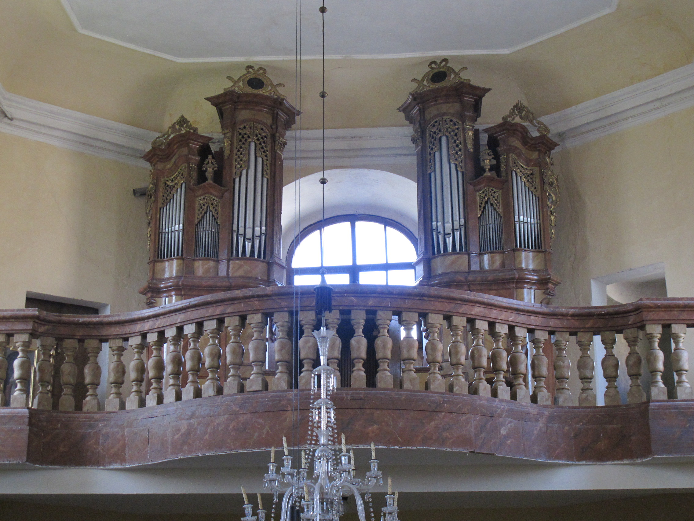 Organ in the Church in Malměřice